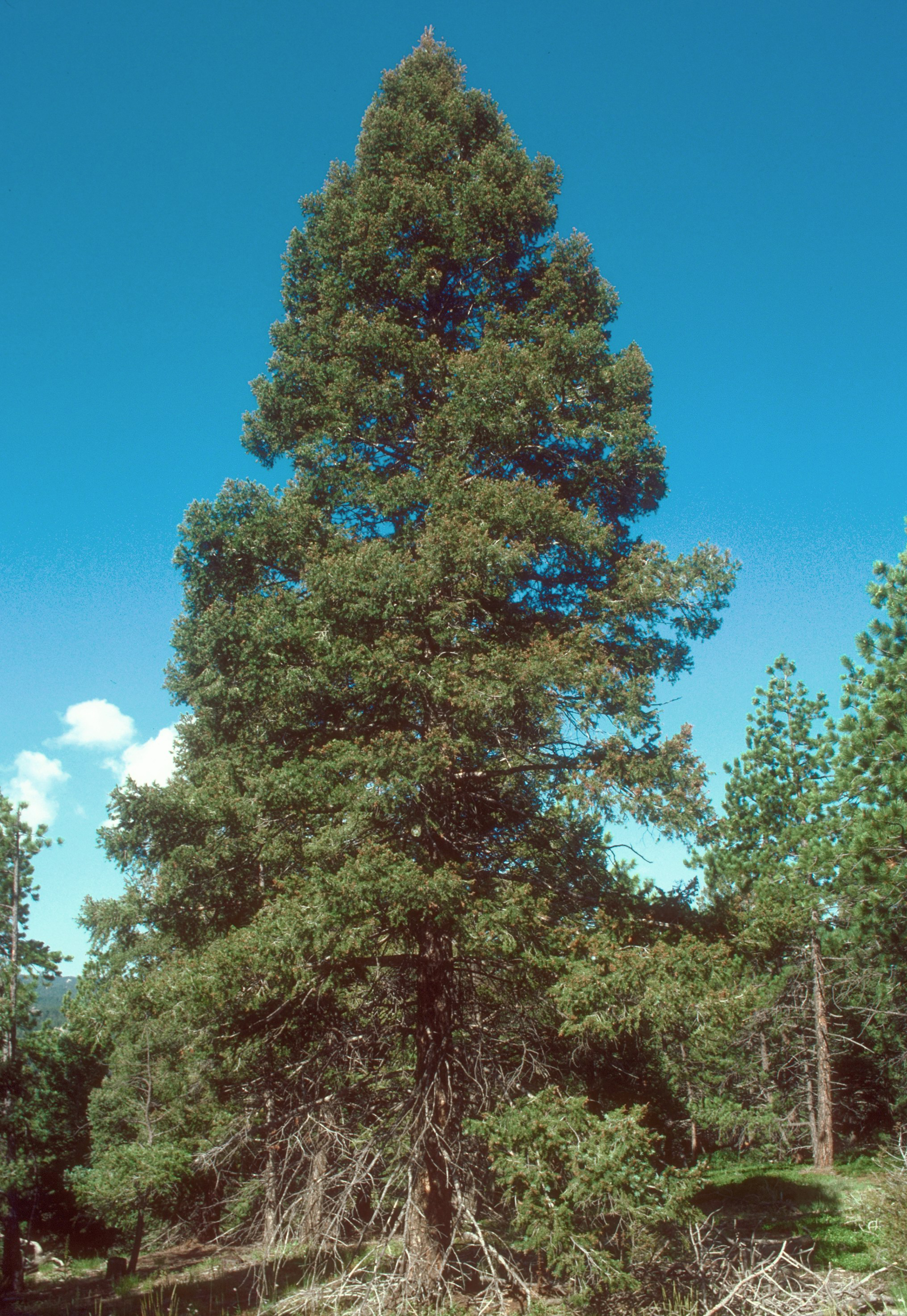 Pseudotsuga menziesii subsp. glauca, Pike and San Isabel National Forests, south-central Colorado